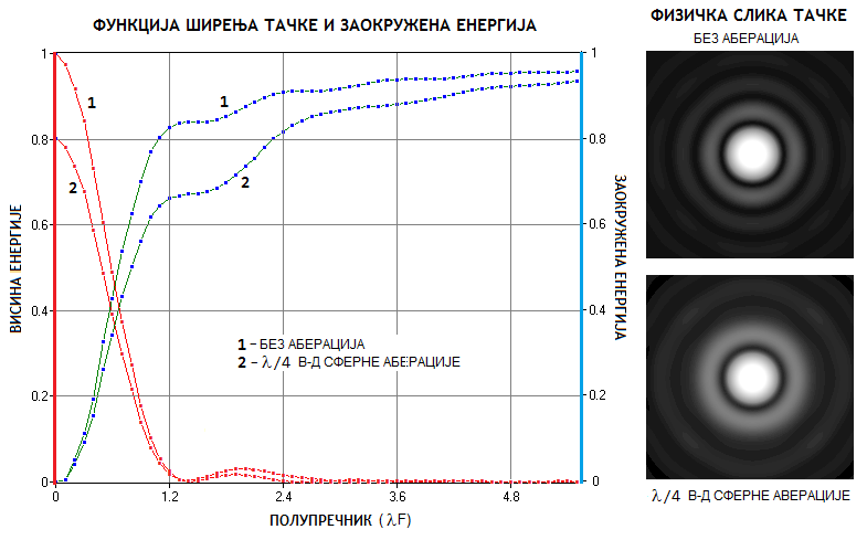 ЗАОКРУЖЕНА_ЕНЕРГИЈА_СЛИКЕ_ТАЧКЕ